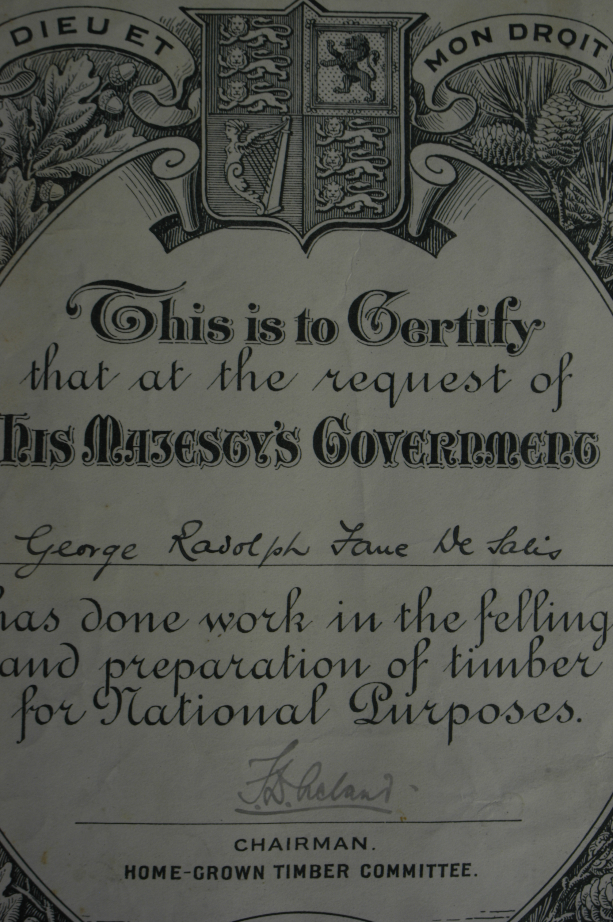 Photograph (by me, R. de Salis, Rodolph (talk) 13:56, 17 August 2015 (UTC)) of a detail of a certificate awarded by the Home-Grown Timber Committee, September 1916.